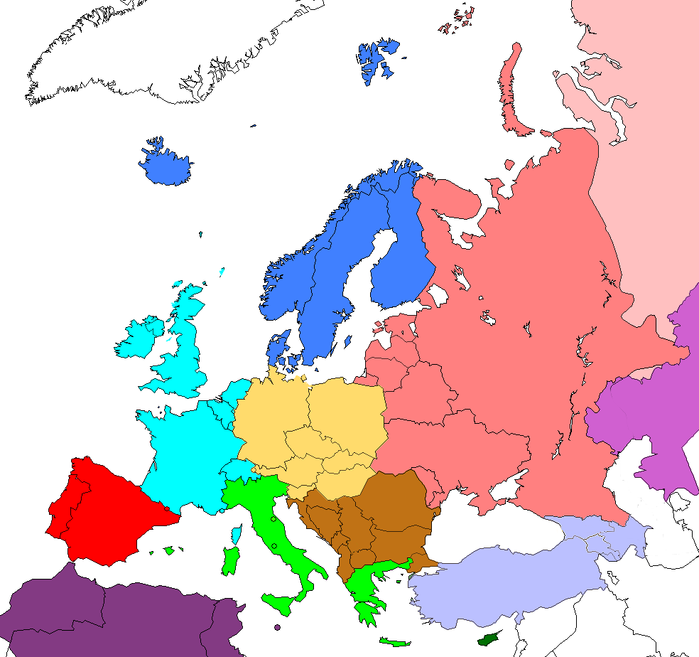 Regions of Europe based on information form the CIA world factbook.